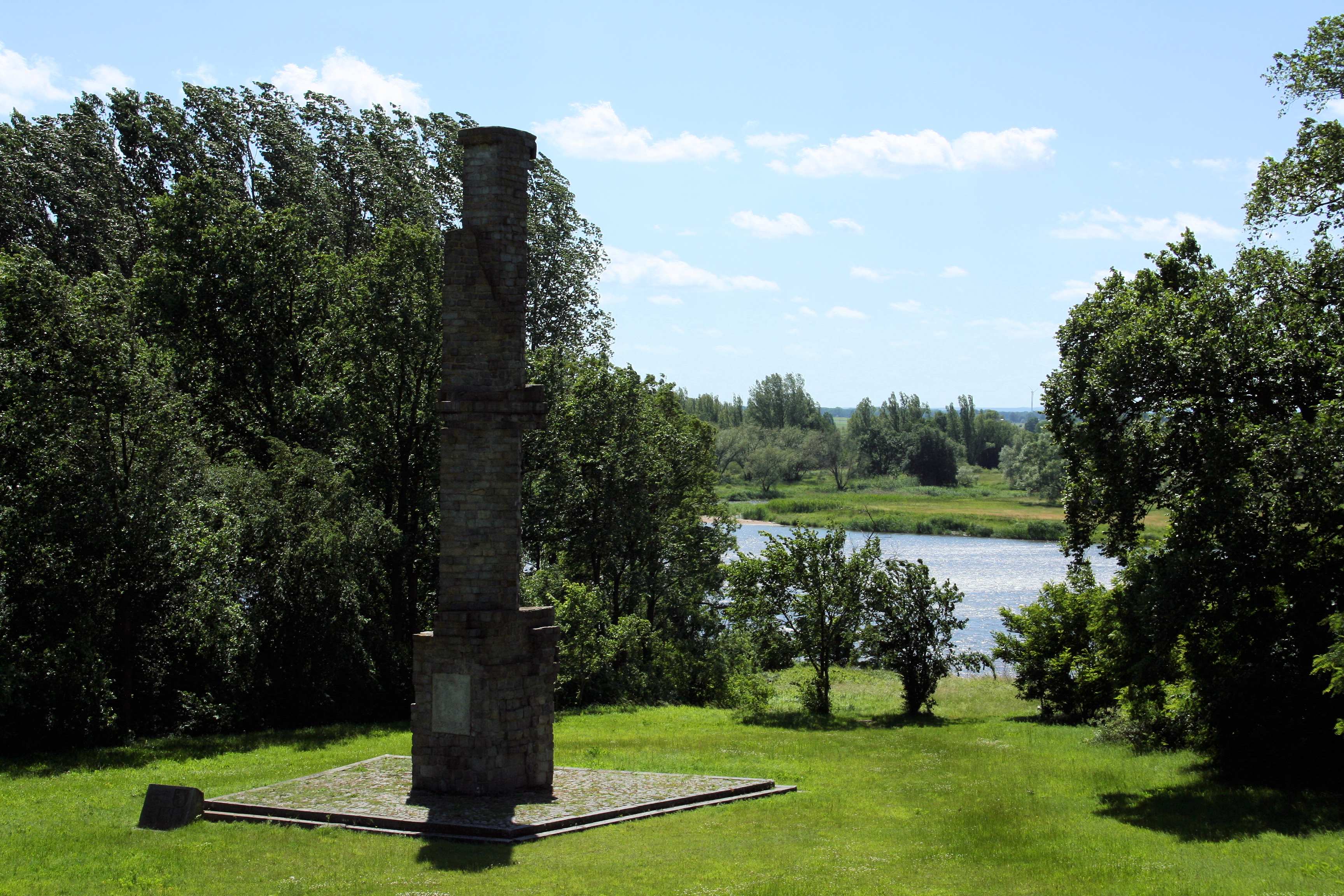 Czelin - the obelisk which commemorates first border stone sank into the ground close to Odra river in 1945 (February 27th) by soldiers of the Sixth Self-Reliant Engineering Battalion of the Polish Armed Forces.